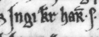 The name and title of Ingi Haraldsson, King of Norway (died 1161) as they appear on folio 57v of AM 47 fol (Eirspennill): "Ingi konvngr Haʀalldz s(on)". Jónsson, F , ed. (1916) Eirspennill: Am 47 Fol, Julius Thømtes Boktrykkeri. The text appears on page 200 chapter 15.